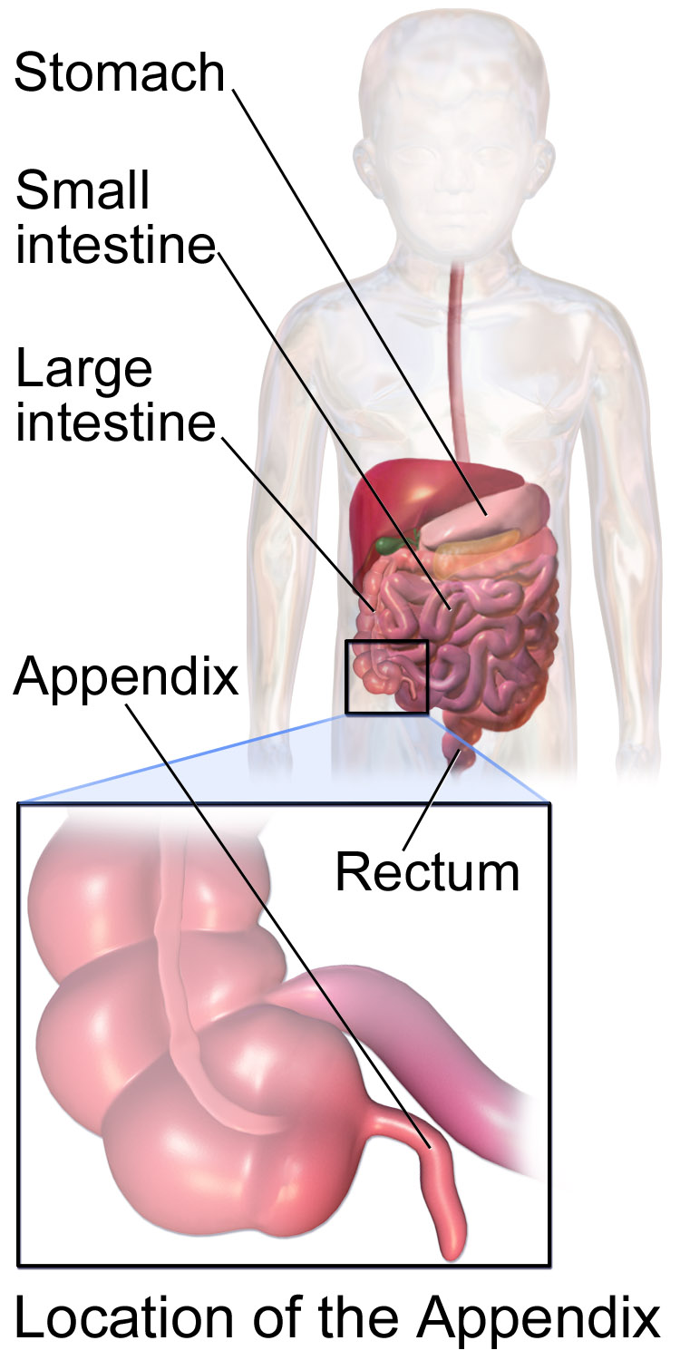 Location of Appendix. See a related animation of this medical topic.